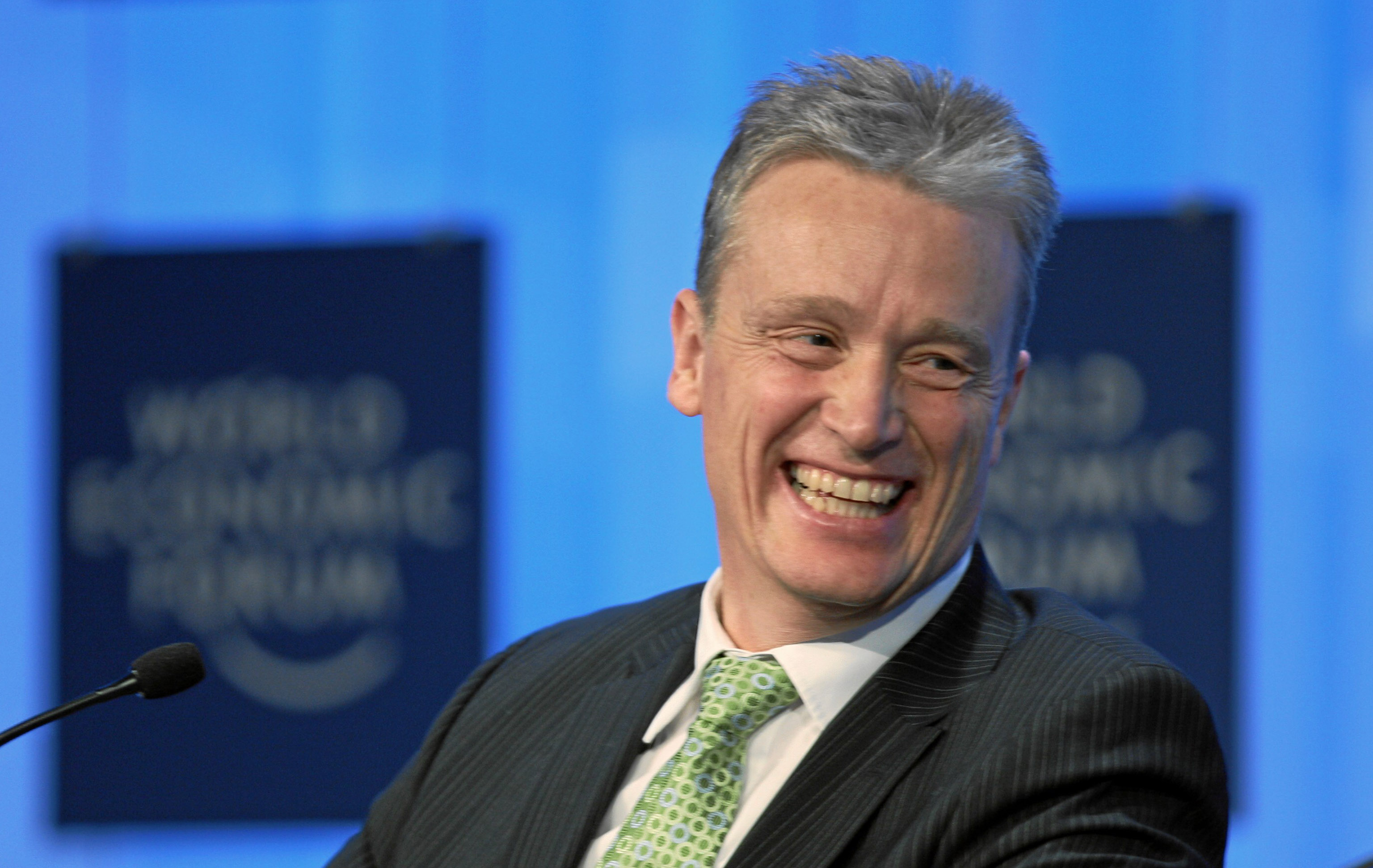 DAVOS/SWITZERLAND, 27JAN10 - Stefan Lippe, Chief Executive Officer, Swiss Re, Switzerland is captured during the session 'Rethinking Systemic Financial Risk' at the congress centre at the Annual Meeting 2010 of the World Economic Forum in Davos, Switzerland, January 27, 2010 at the Congress Centre.. Copyright by World Economic Forum. by Sebastian Derungs.